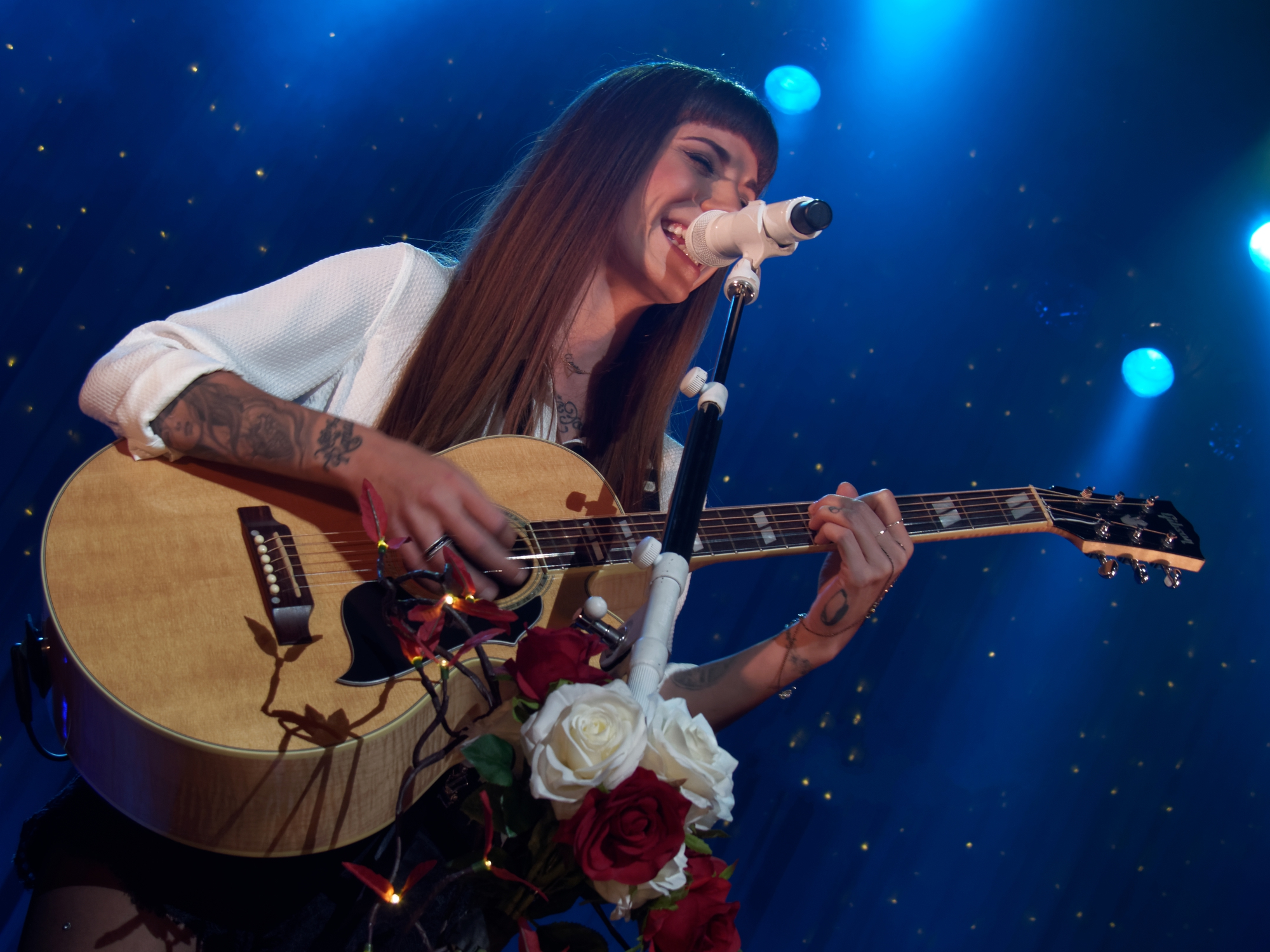 Christina Perri at The Wiltern